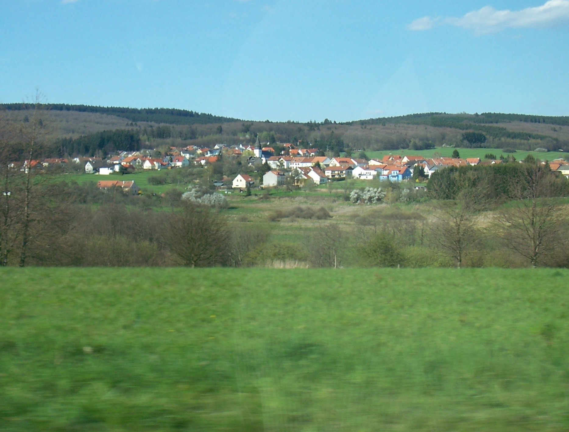 Bergen (Saar) seen from the federal highway 268, Saarland, Germany.